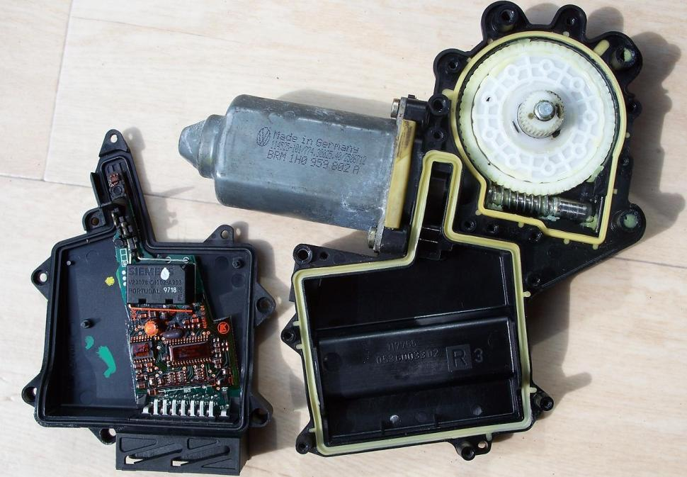 inside of an elecric window lifter